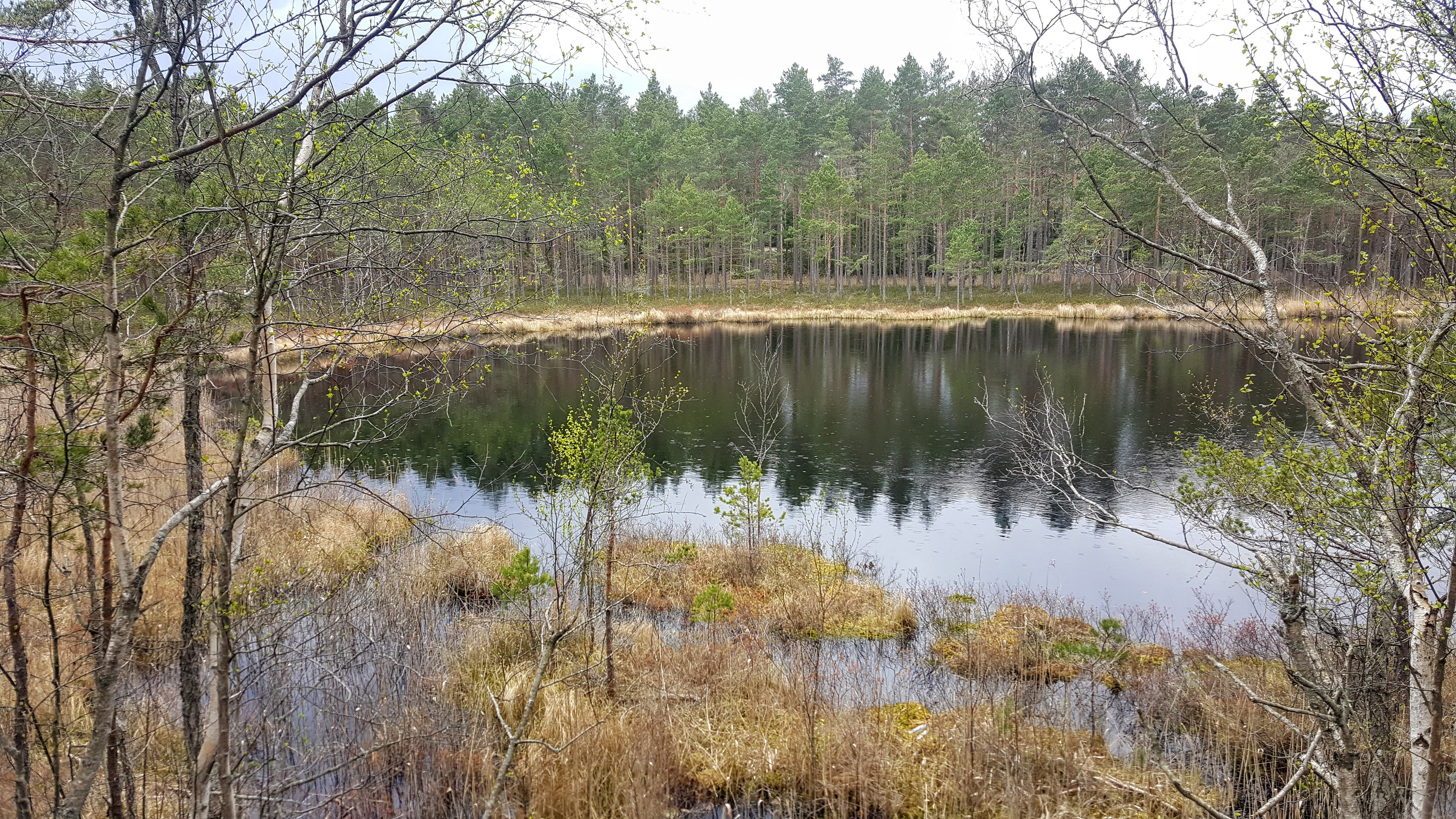 Lake Skinnmossen in Nacka municipality, Sweden, May 2020